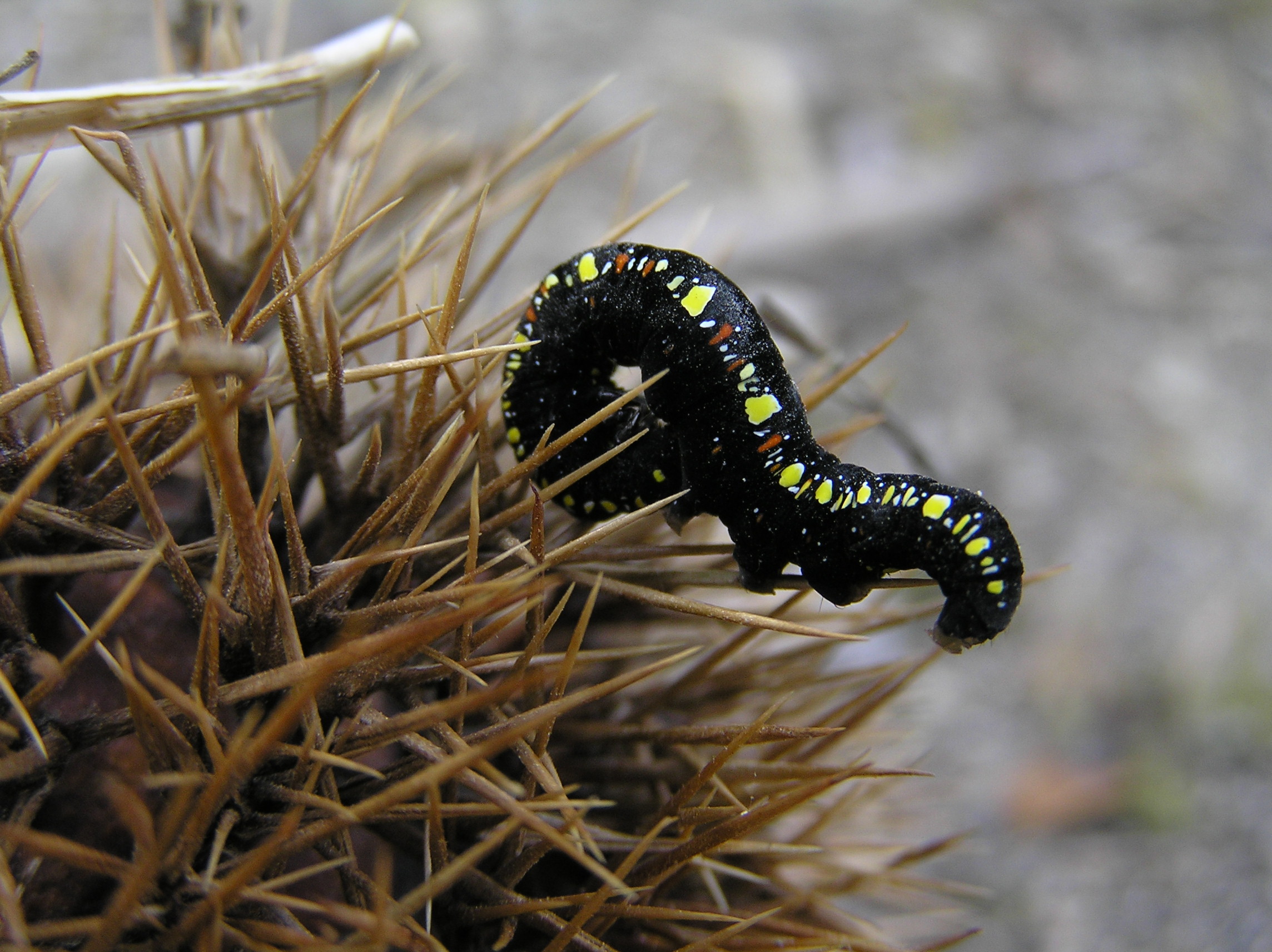 Oraesia emarginata (Fabricius, 1794) 、ヒメエグリバ